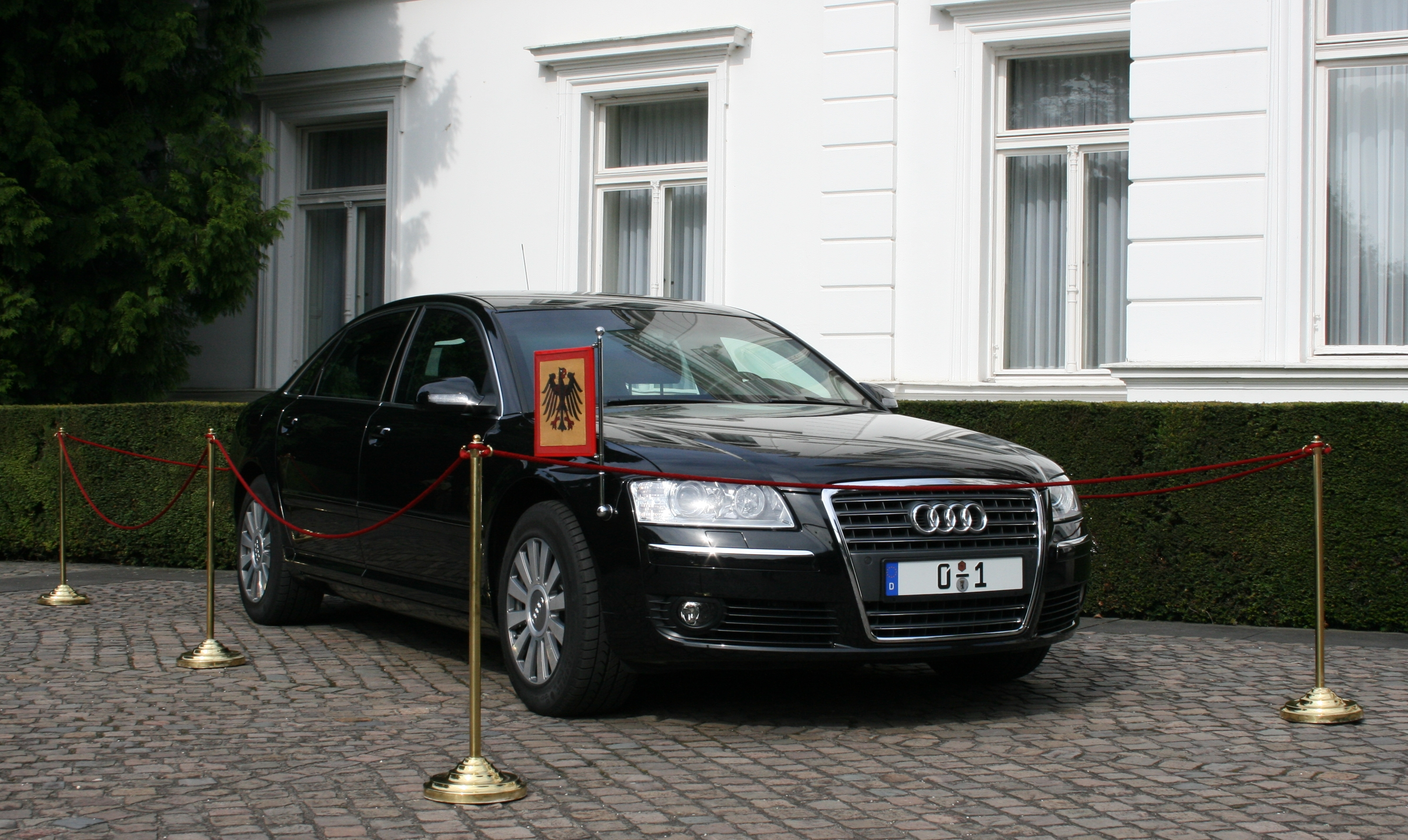 Audi A8 Official car of the german president – number plate 0–1. in front of Villa Hammerschmidt in Bonn, public day